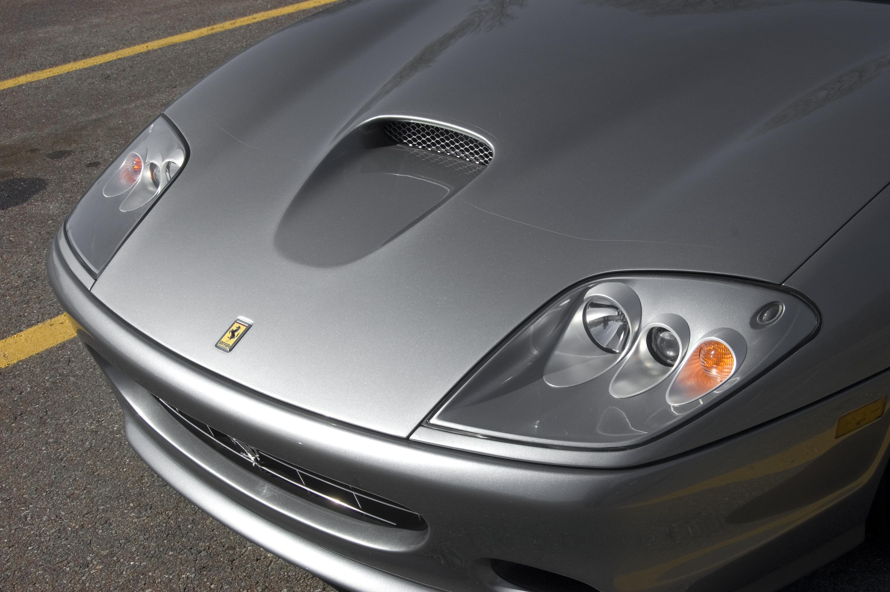 Ferrari 575 Superamerica Hood.